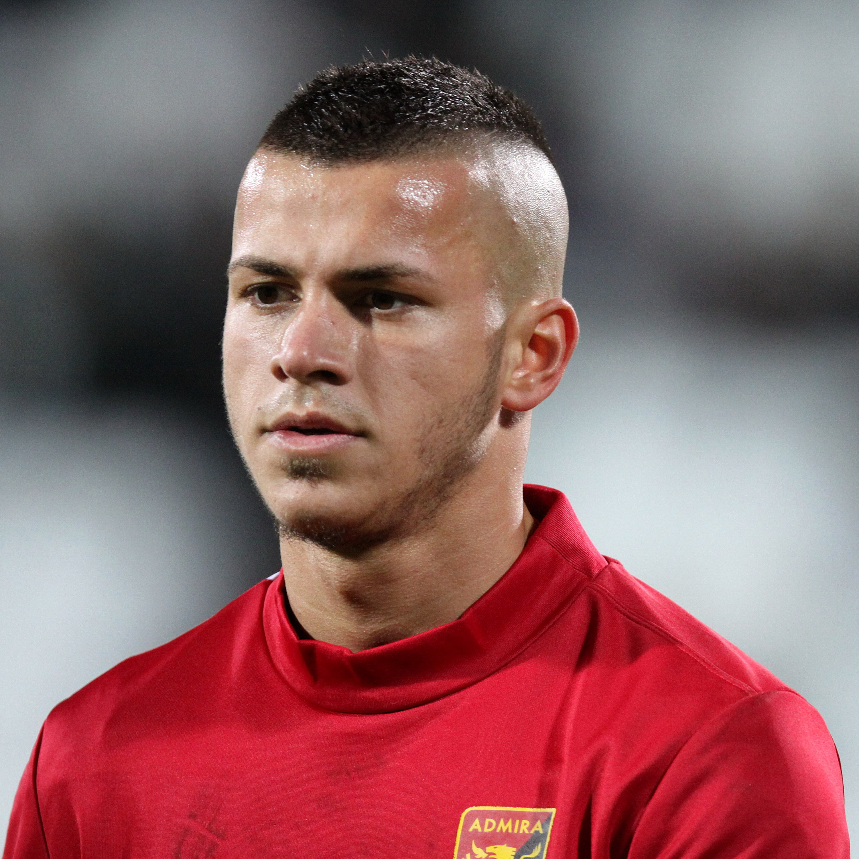 Match of the Austrian Football Bundesliga – FC Admira Wacker Mödling (red shirts) vs. SK Rapid Wien (white shirts) 2-1 (0-1) on 2015-12-02 in Bundesstadion Sudstadt – The photo shows Srđan Spiridonović.